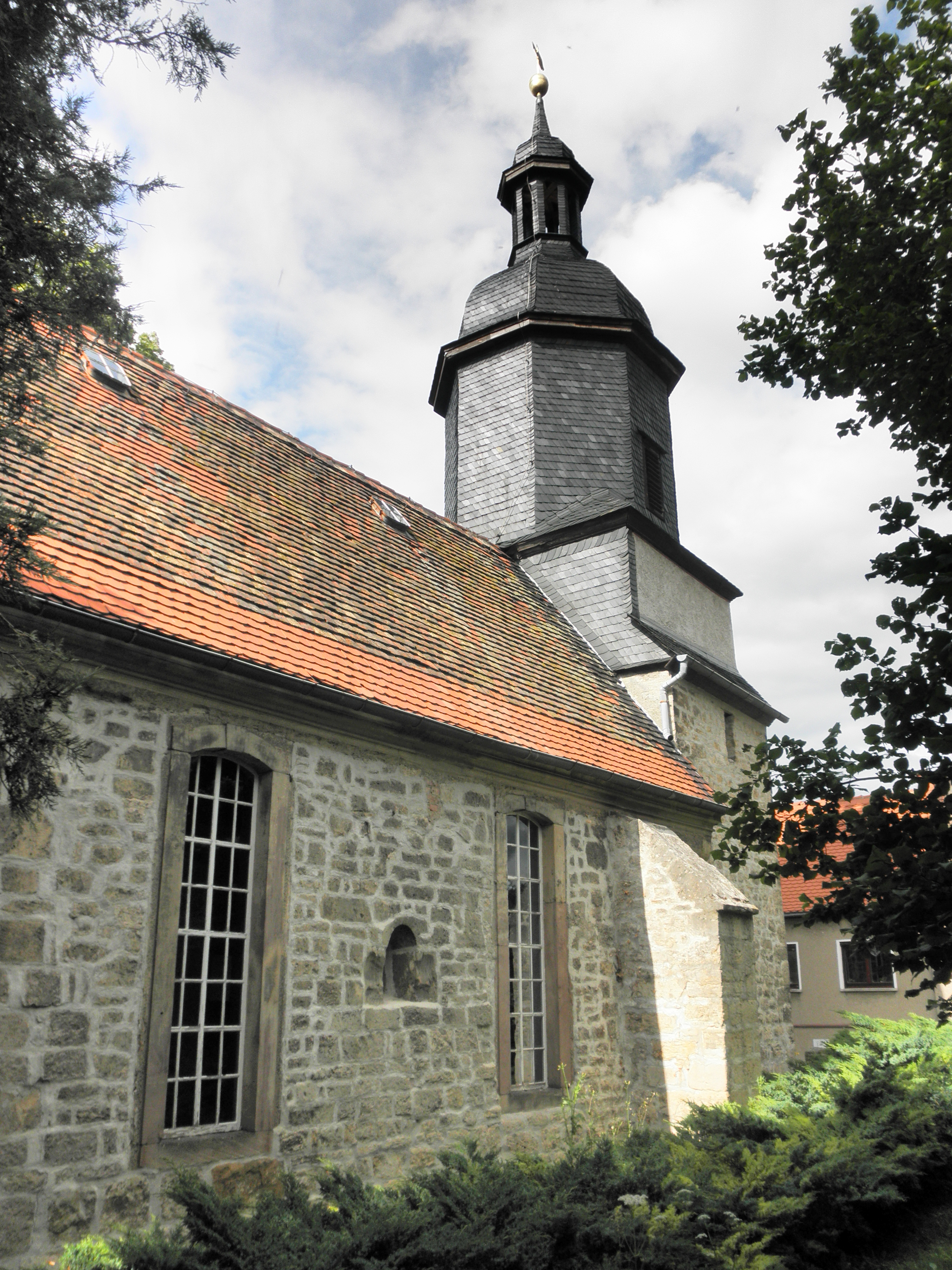 Church in Großschwabhausen in Thuringia